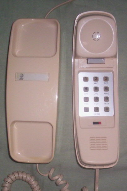 First redesigned touch-tone Trimline telephone, late 1984